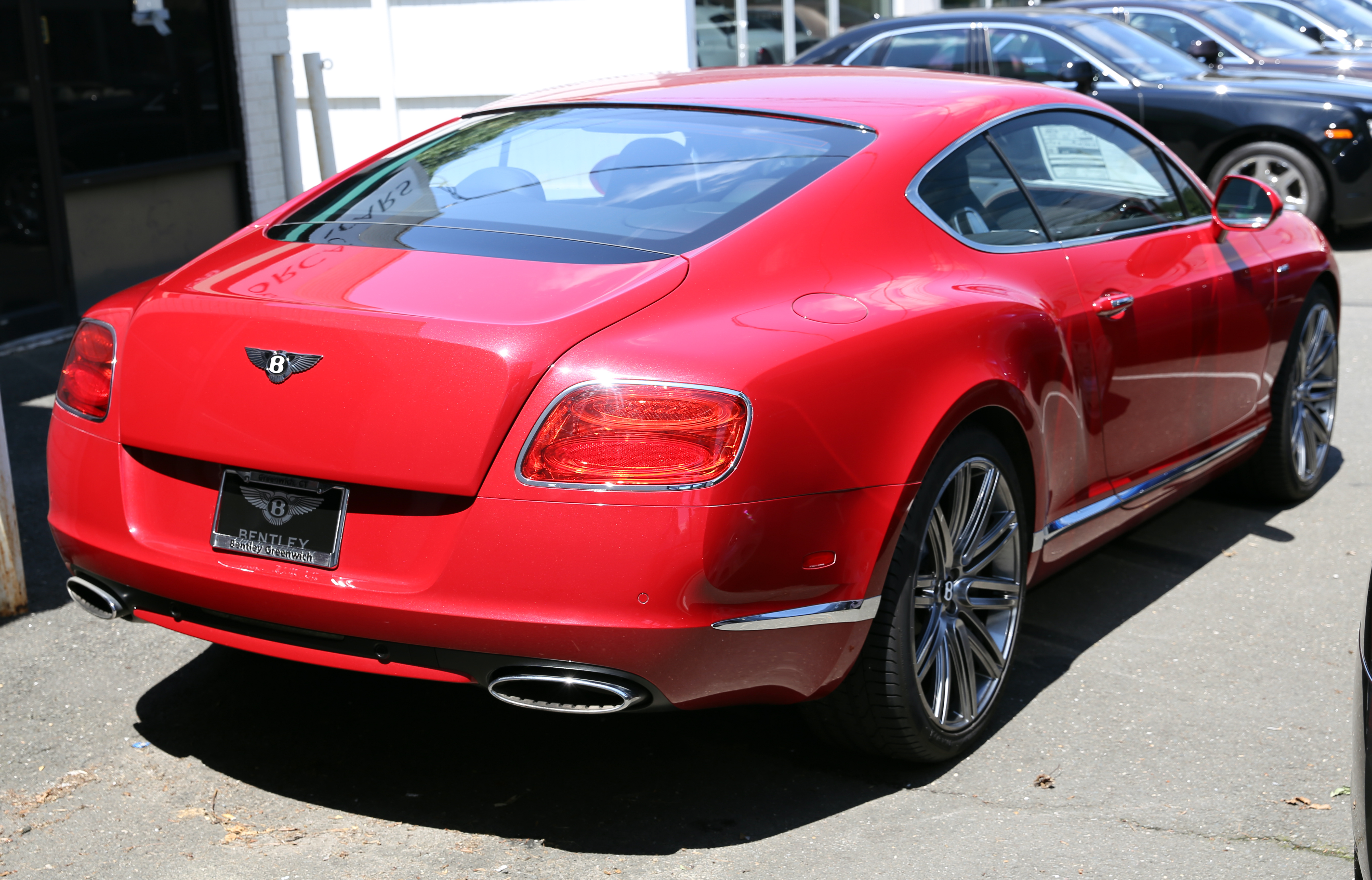 Rear view of 2013 Bentley Continental GT Speed, second generation. The "Dragon Red" paint costs $4,305 extra, according to the sticker in the window. Yikes.